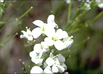 Spring Cress (Cardamine bulbosa)